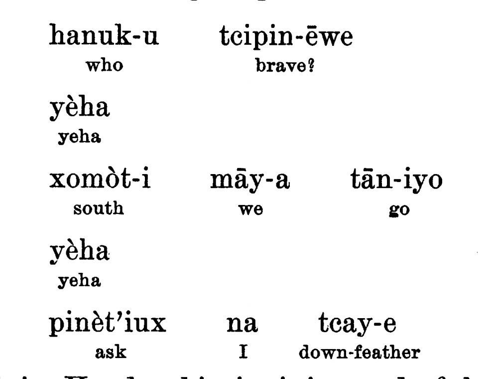 Dancing song of the Tachi Yokuts